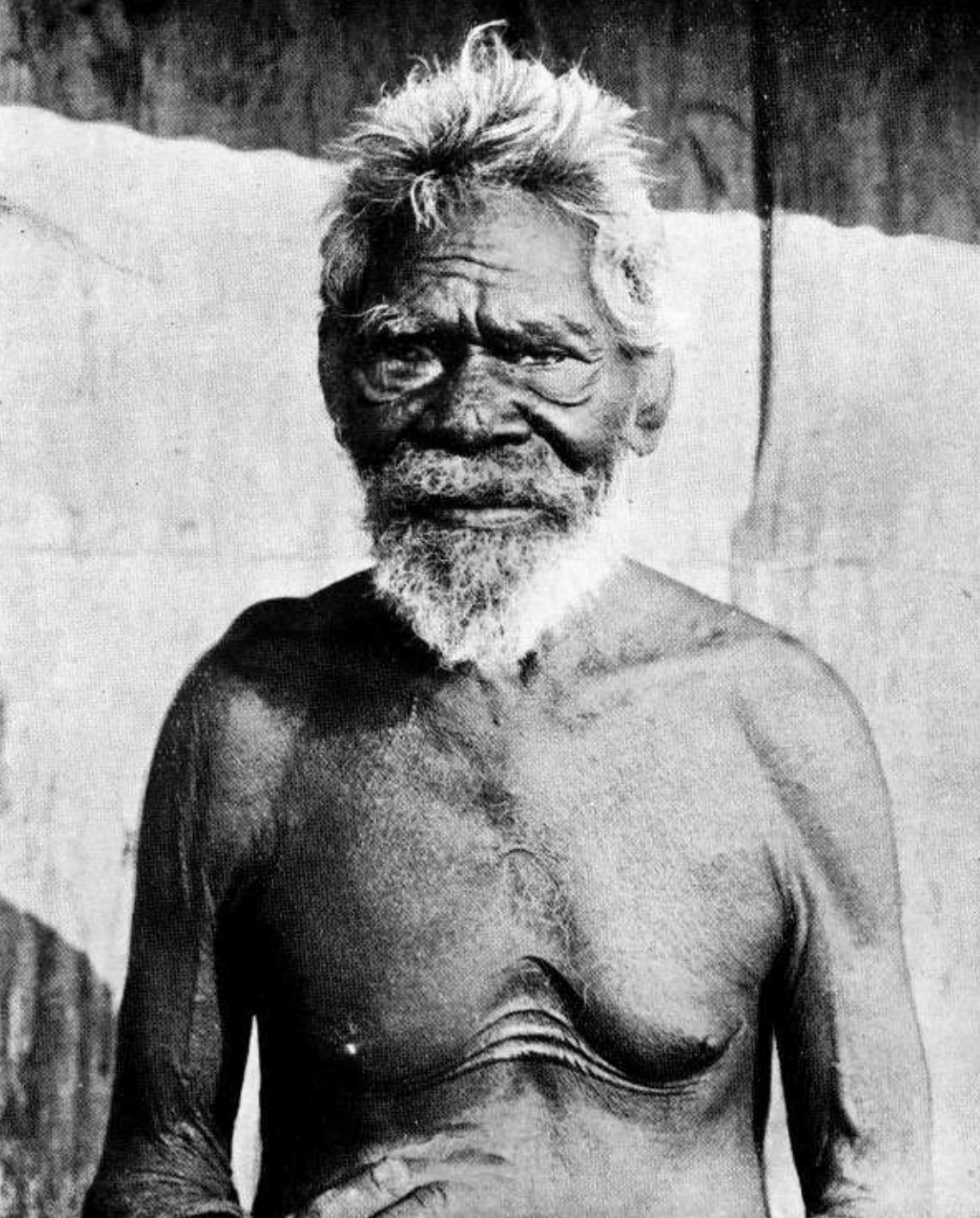 Port Essington Jack. At the time the oldest inhabitant in the NT, aged 94. Referred to in Elsie Masson's book as 'Old Jack Davis'.